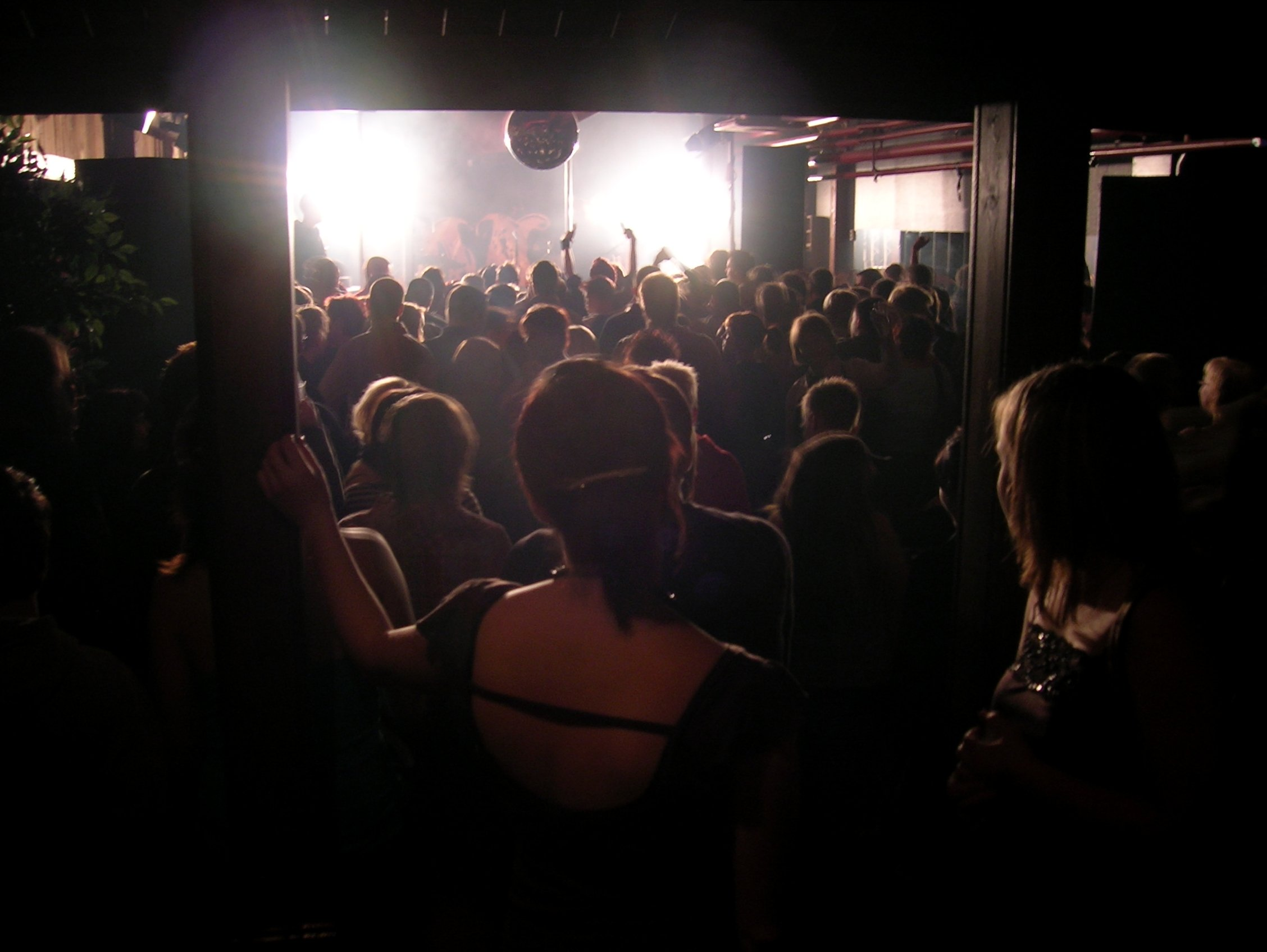 People dancing at a nightclub ("clubbing"). Or possibly dancing to live music (a band) at their local pub.